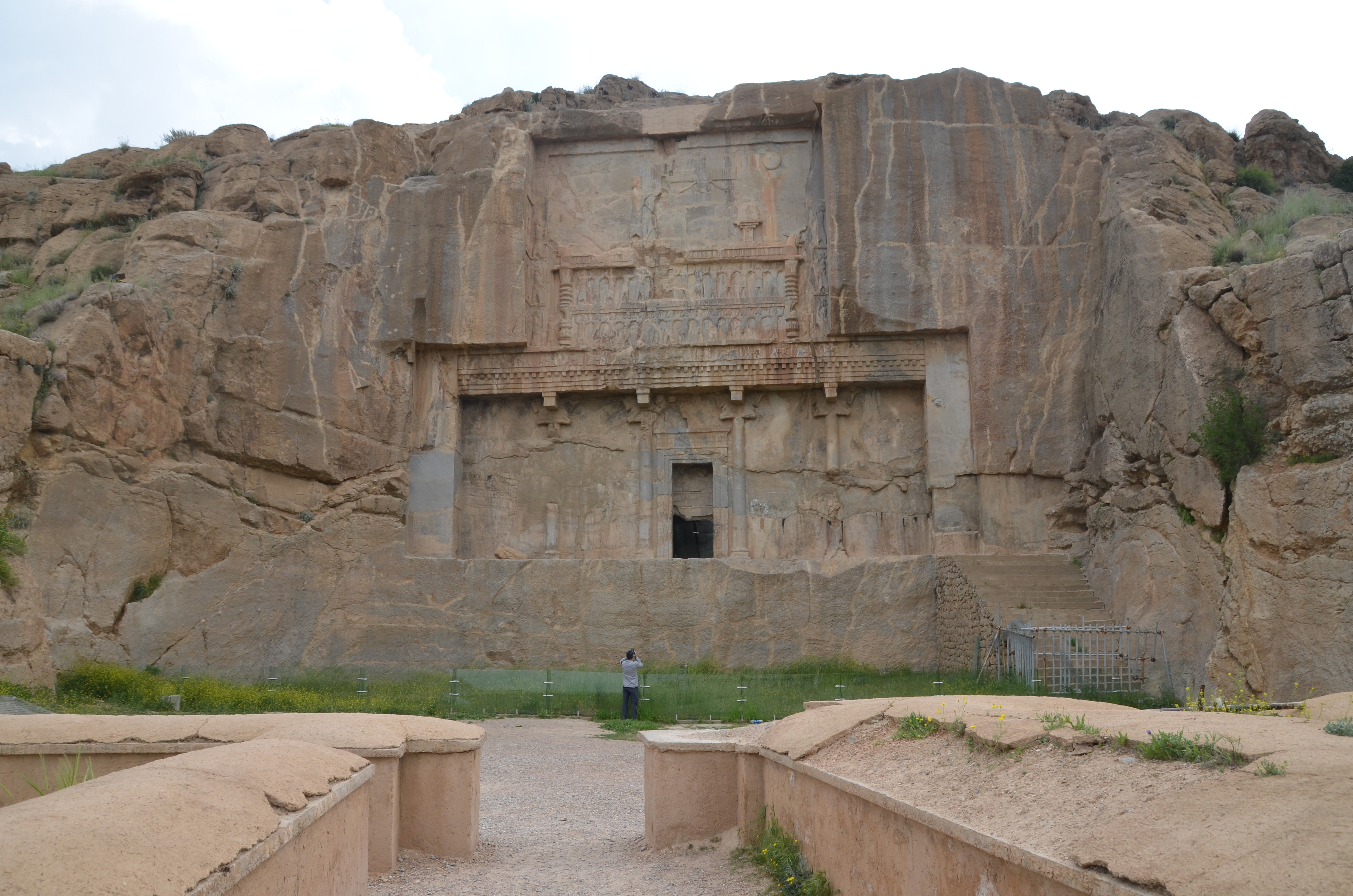 The Tomb of Artaxerxes III, cut into Mount Mithra in Persepolis, Persia (Persis/Fars), southwestern Iran.